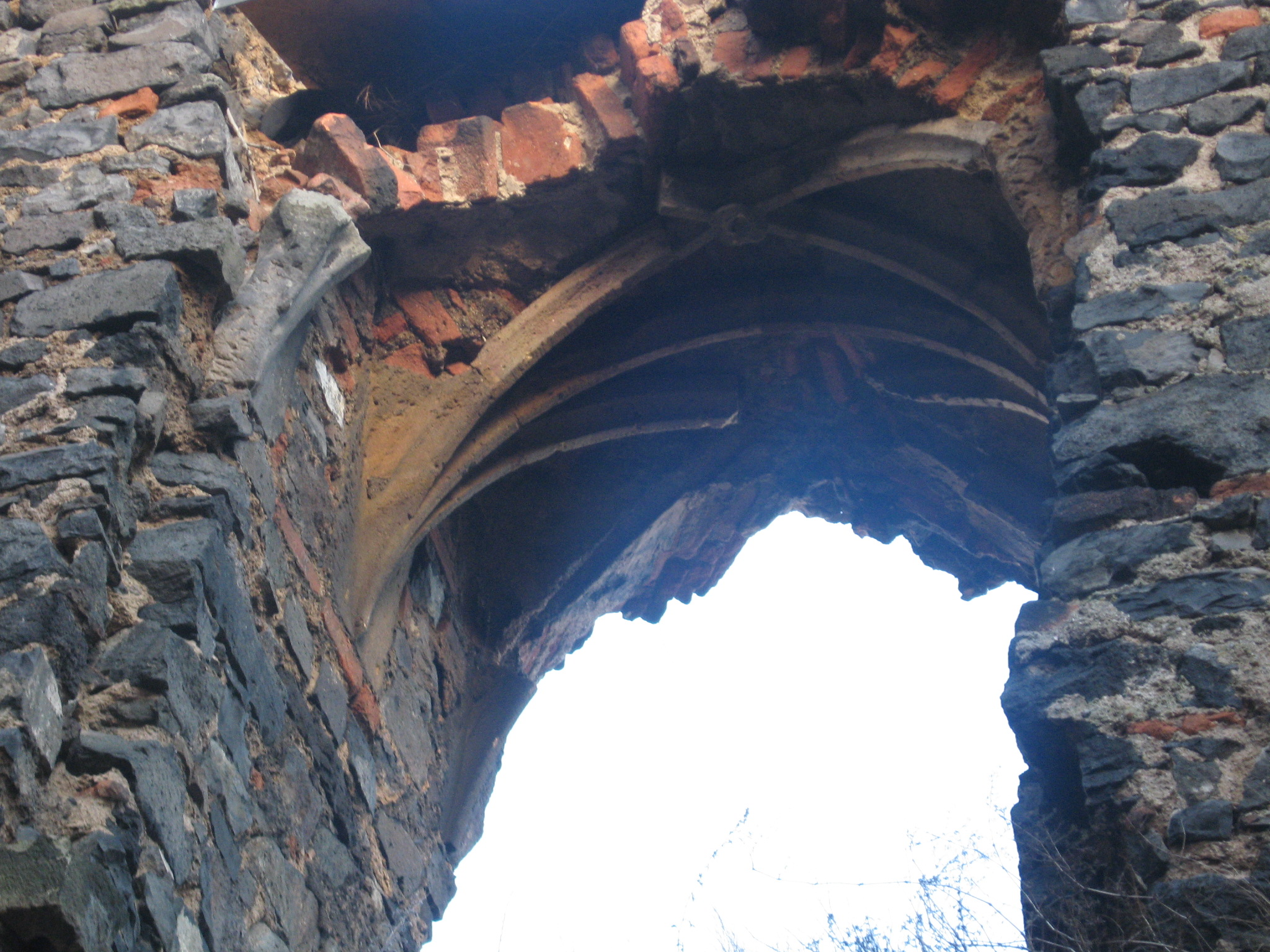 Lestkov (Egerberg), Castle in the Czech Republic, Gothic Vault of the Window Unknown